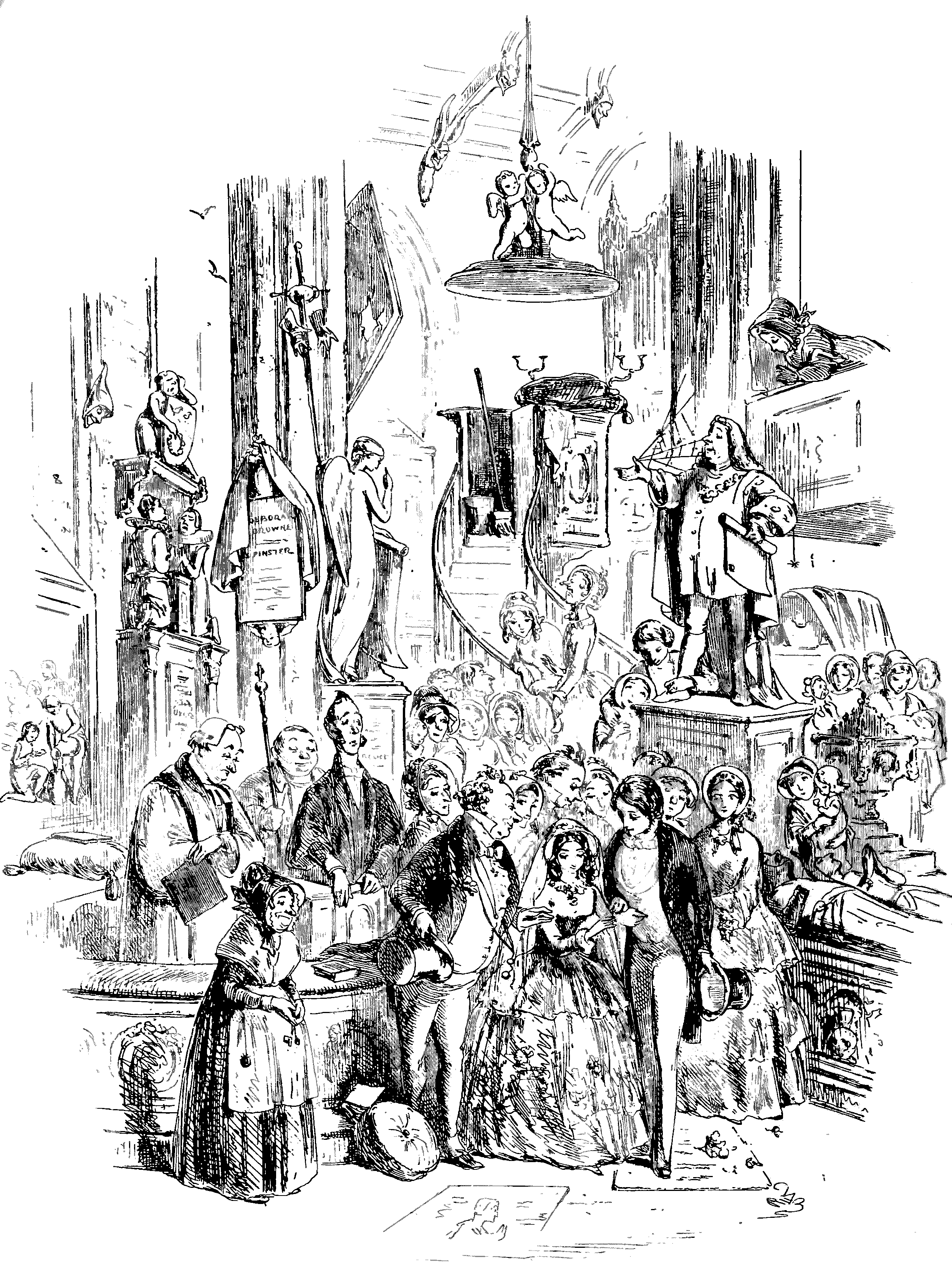 I AM MARRIED